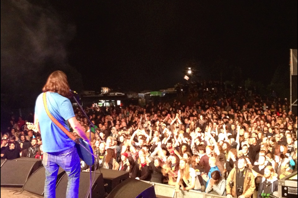 live 2013